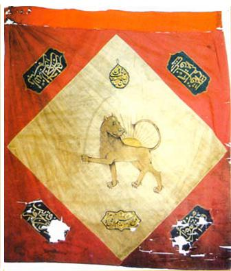 Flag of the Khanate of Erivan